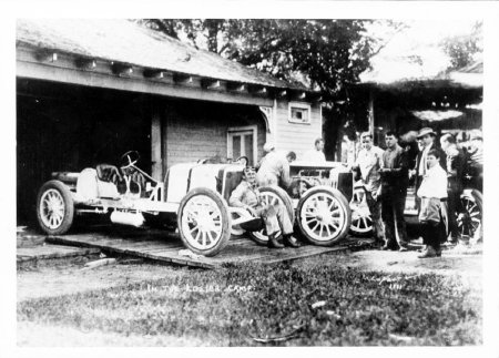 The Lozier team preparing for the 1911 American Grand Prize at Savannah, Georgia.